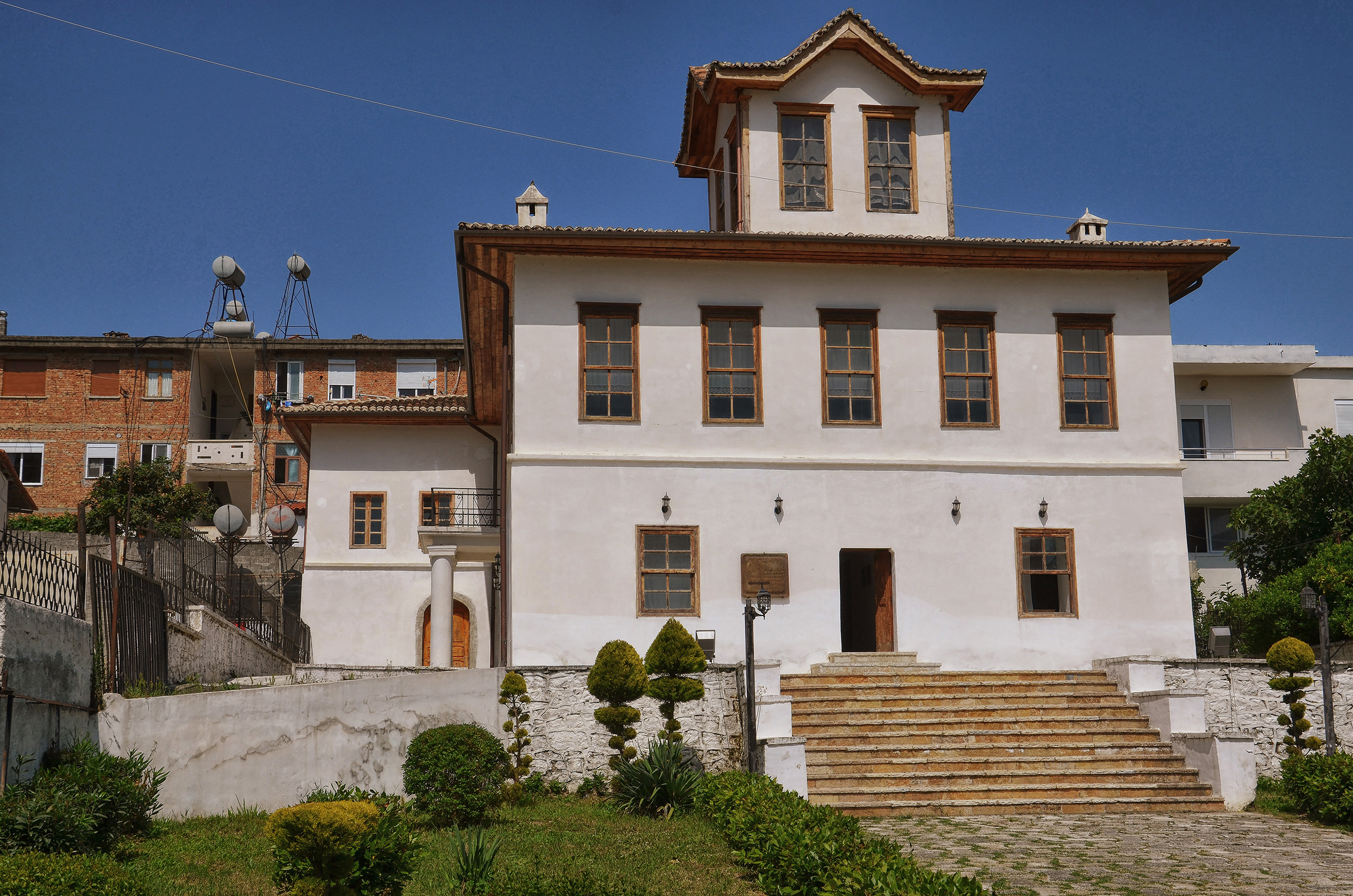 The Congress of Lushnjë Museum in Lushnjë, Albania